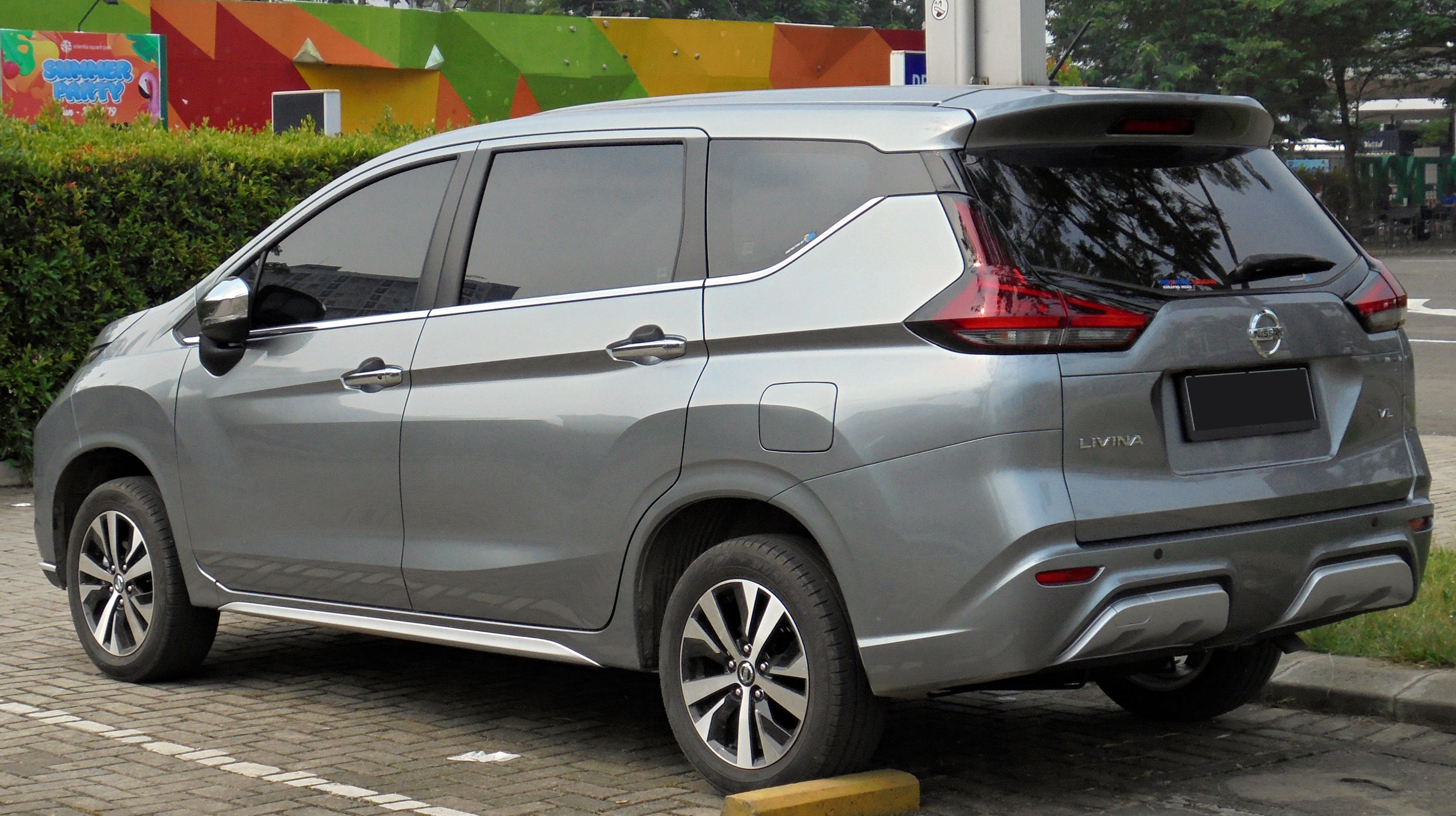 2019 Nissan Livina VL 1.5 (ND1W)